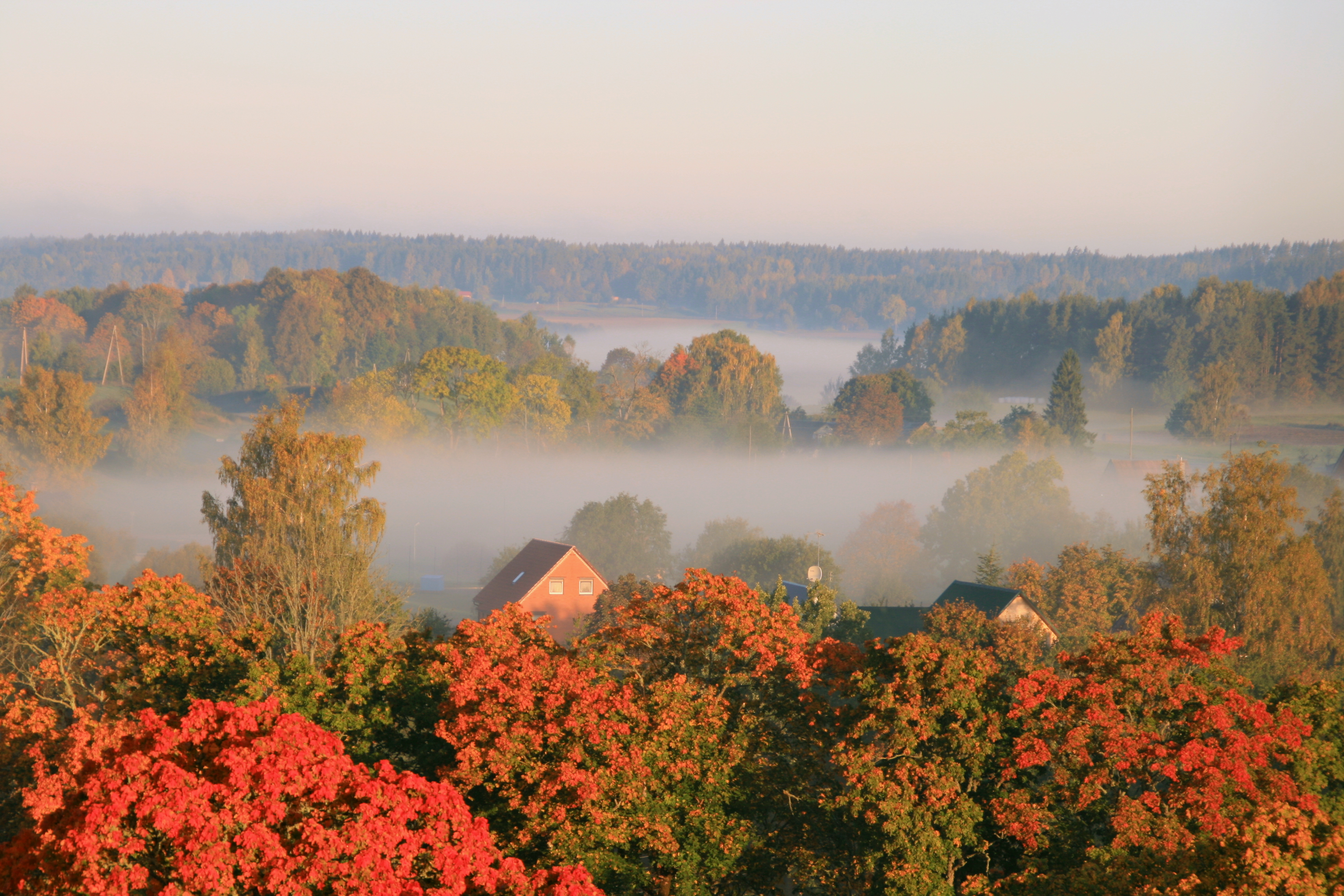 Ēdole parish in LatviaLatviešu: Ēdoles pagasts Latvijā